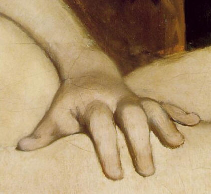 Detail of Edouard Manet's Olympia. (Olympia's hand)